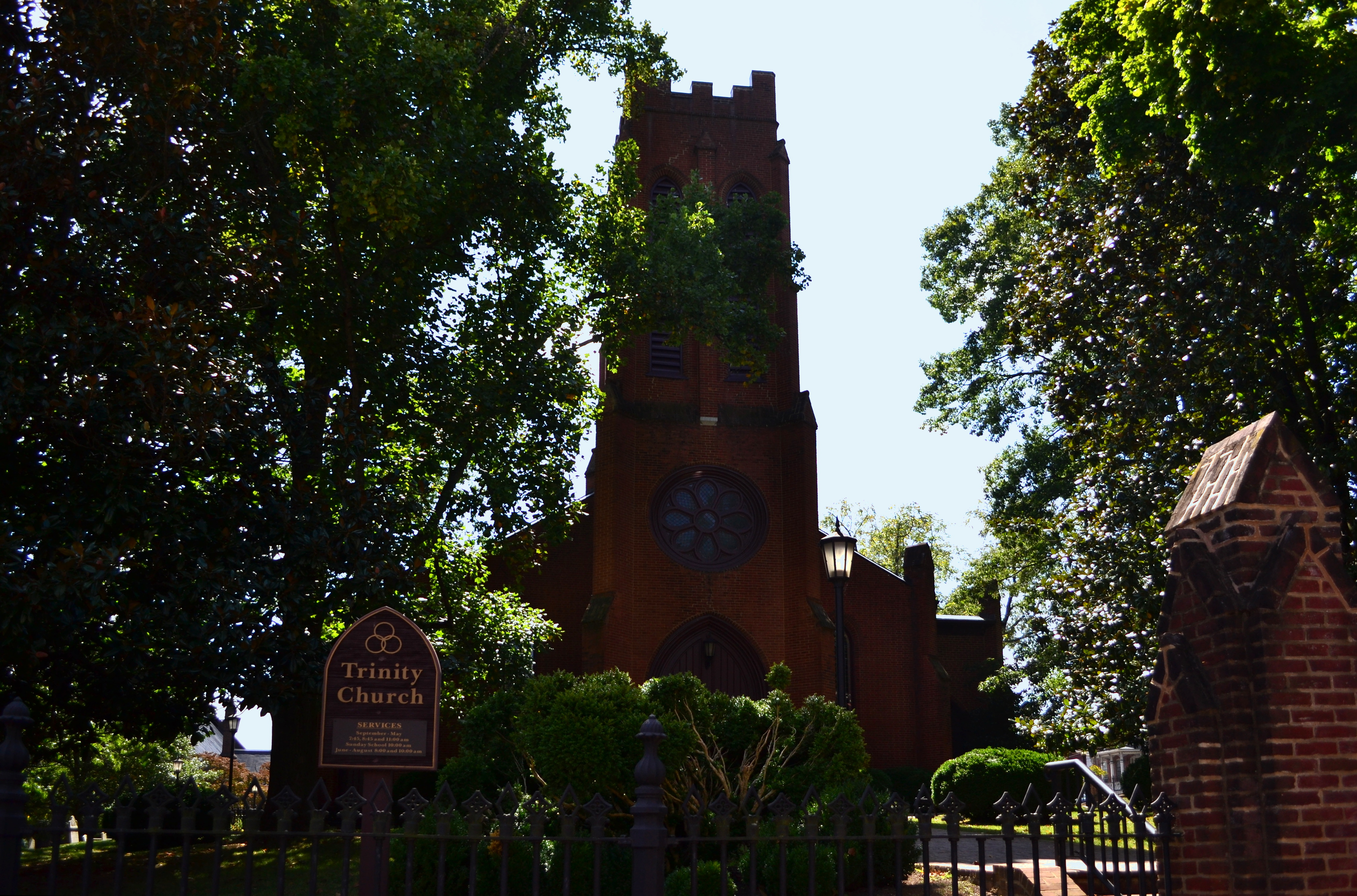 Trinity Episcopal Church, Beverley and Lewis Sts. Staunton